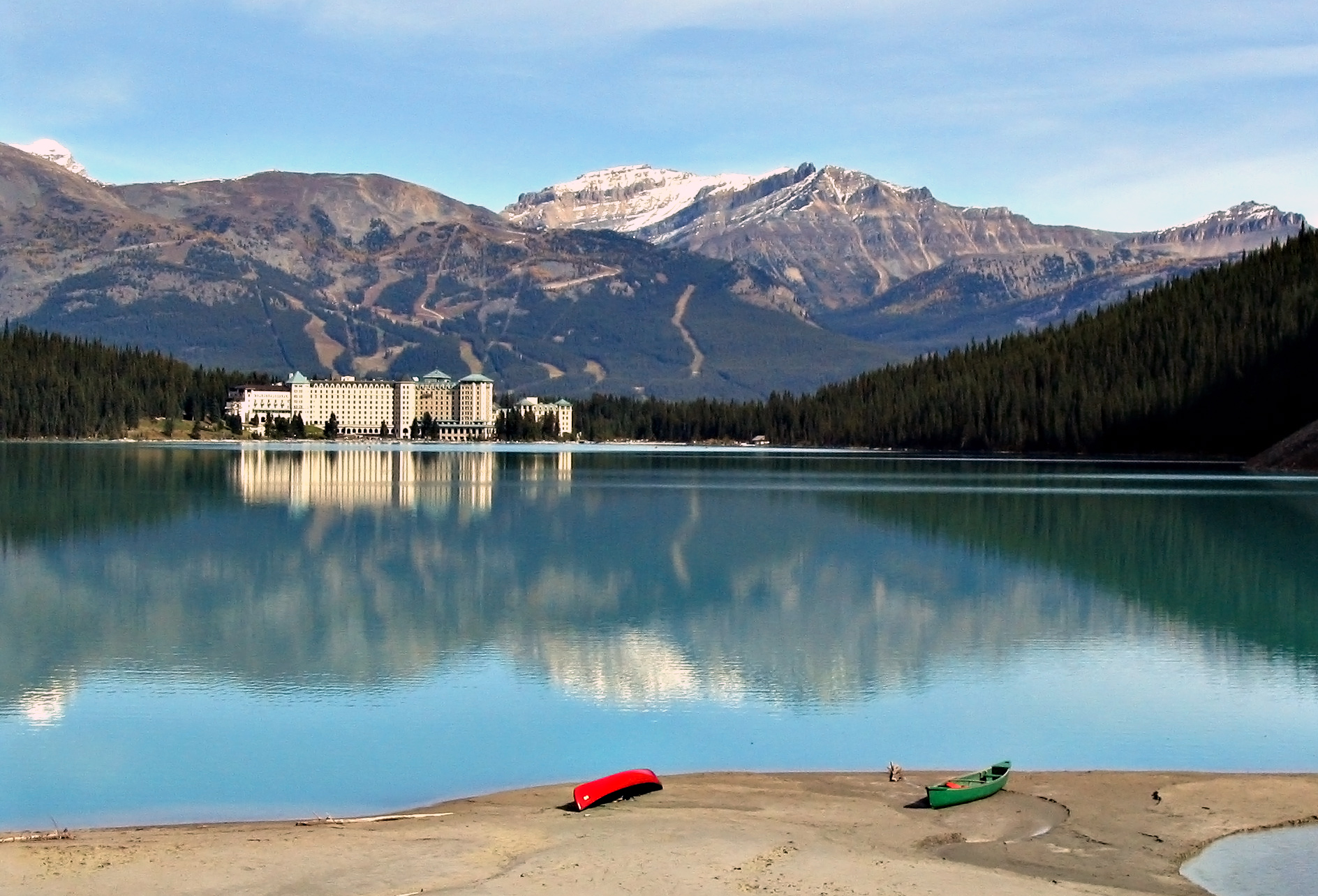 Fairmont Chateau Hotel, Lake Louise, Banff National Park, Canada